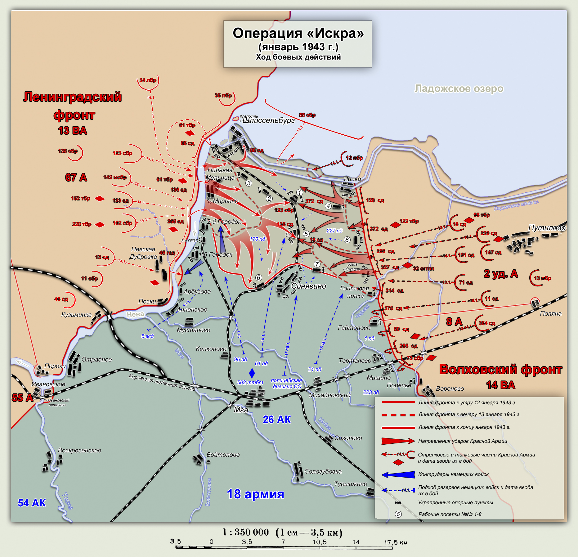 Operation Iskra (January 1943). The tide of battle